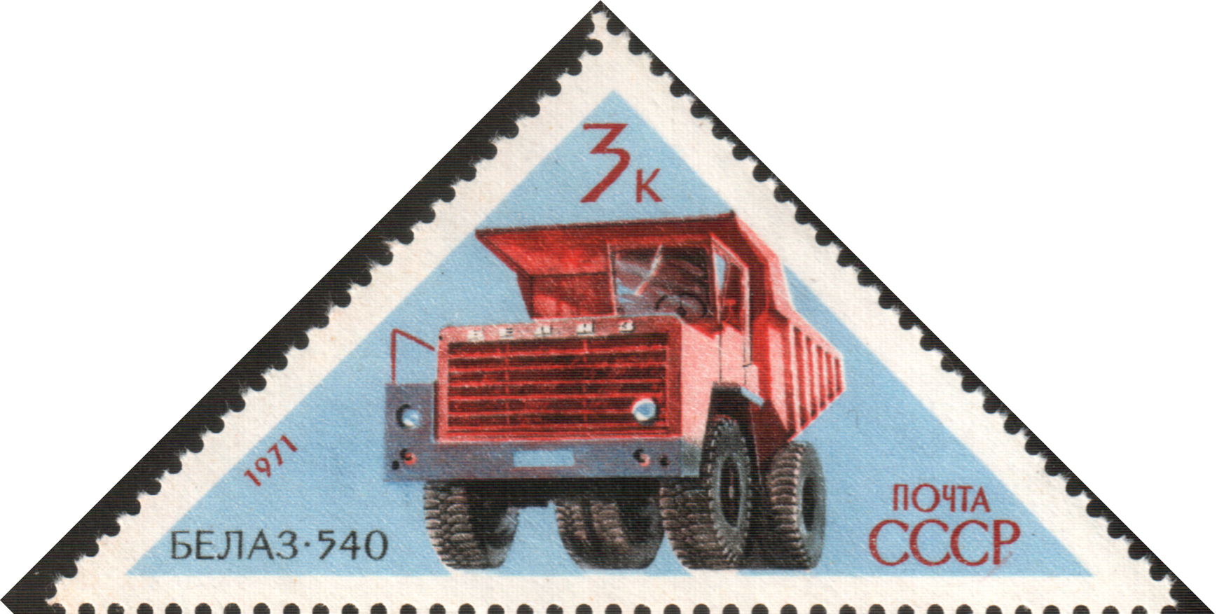 USSR stampː BelAZ-540 Tipper Truck. Seriesː Soviet Motor Vehicles